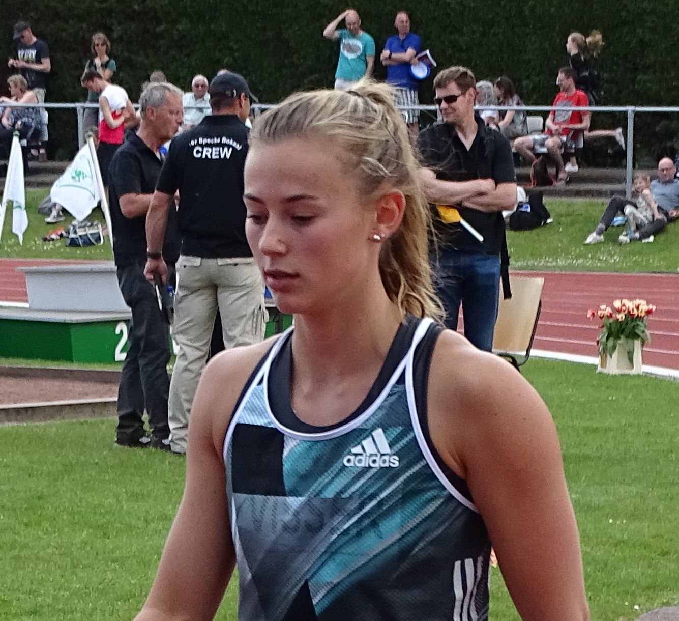 Nadine Visser preparing herself to compete in the 150 metres at the Ter Specke Bokaal 2016, Lisse, Netherlands